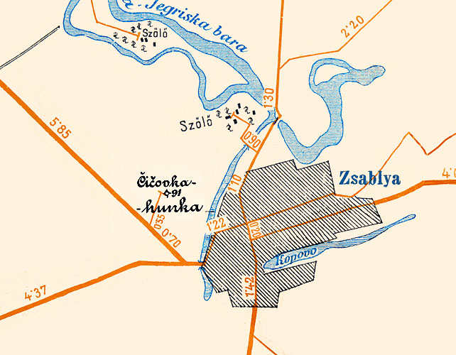 Map portion of the map sheet No.130 (vicinity of todays Novi Sad) published in 1899 by the Royal Hungarian Ministry of Commerce and Trade in scale 1:75.000.